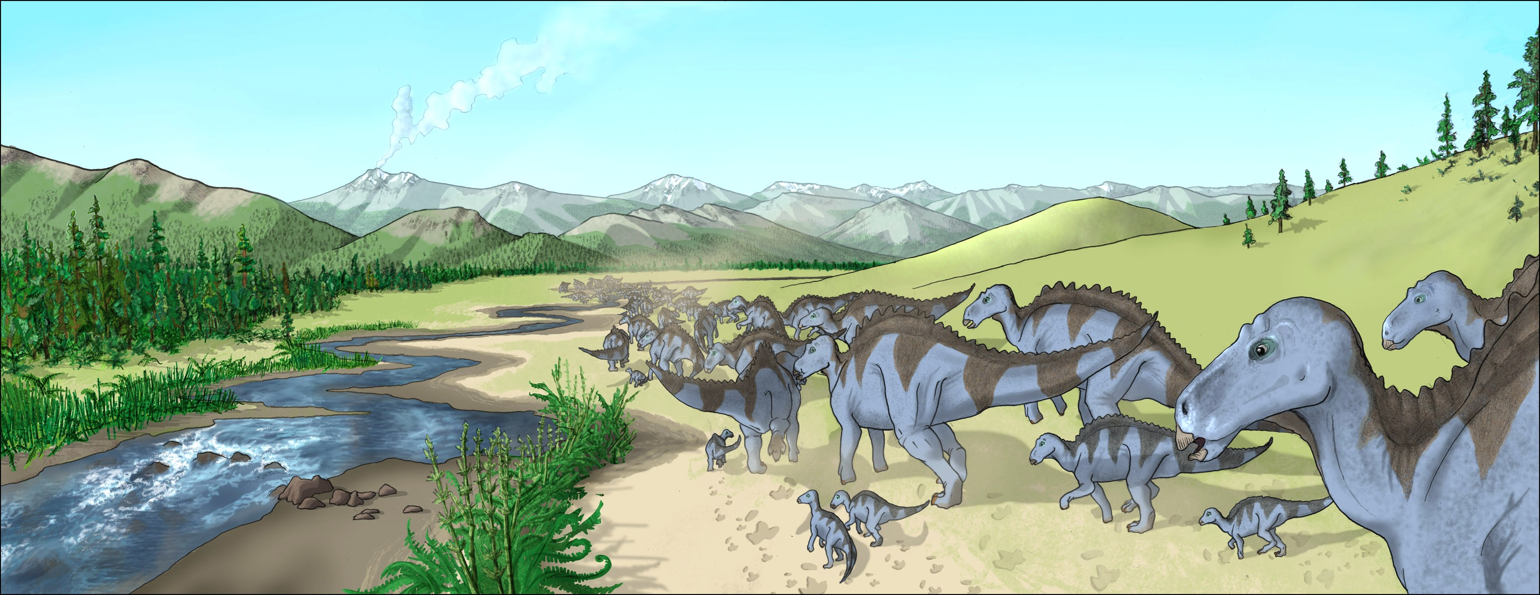 A herd of Maiasaura, a hadrosaur from the Upper Cretaceous of North America, walking along a creekbed in a semi-arid landscape what is today the Two Medicine Formation.